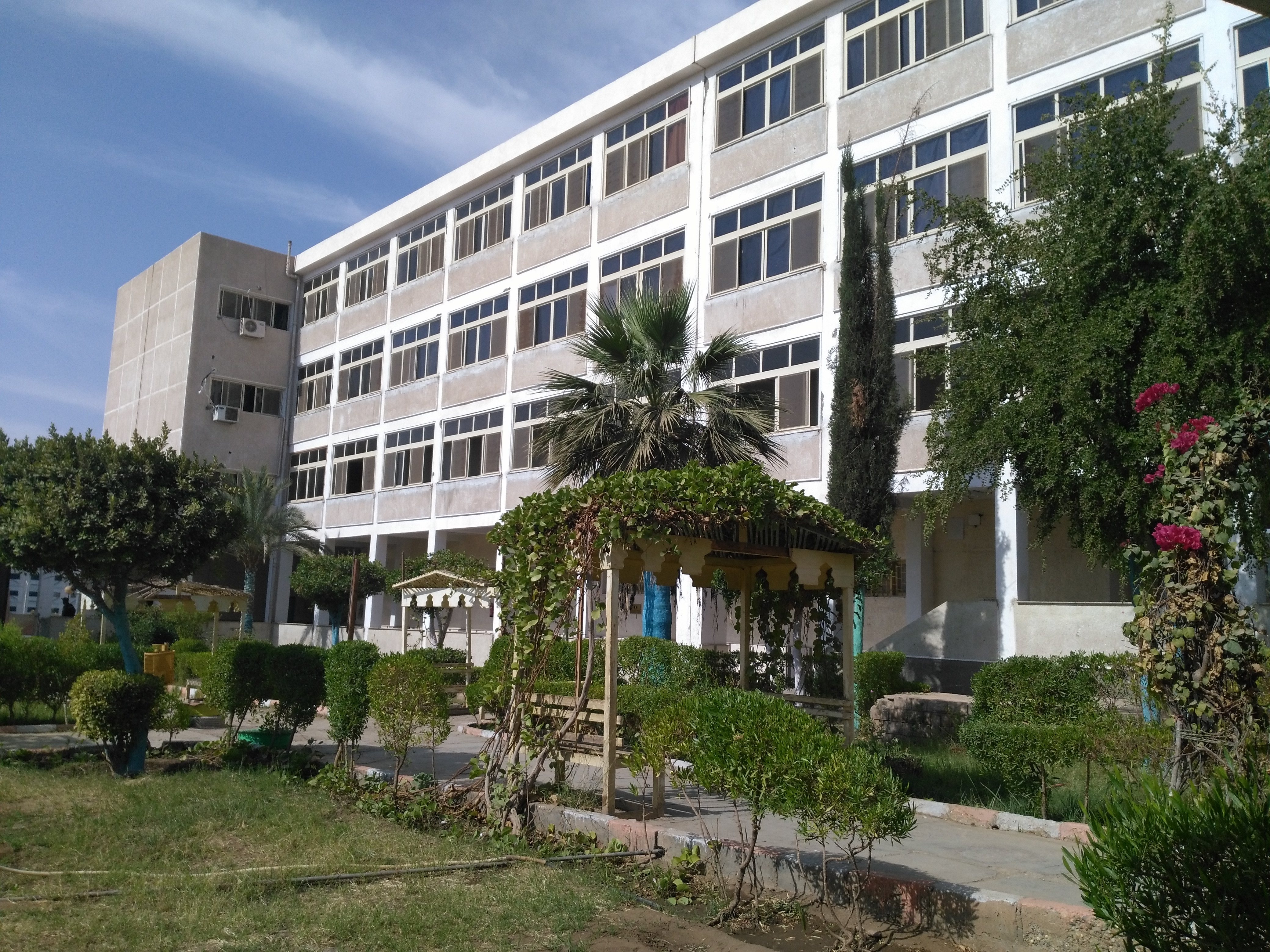 Computer Labs & Doctor Desks in Faculty of Engineering-Aswan University